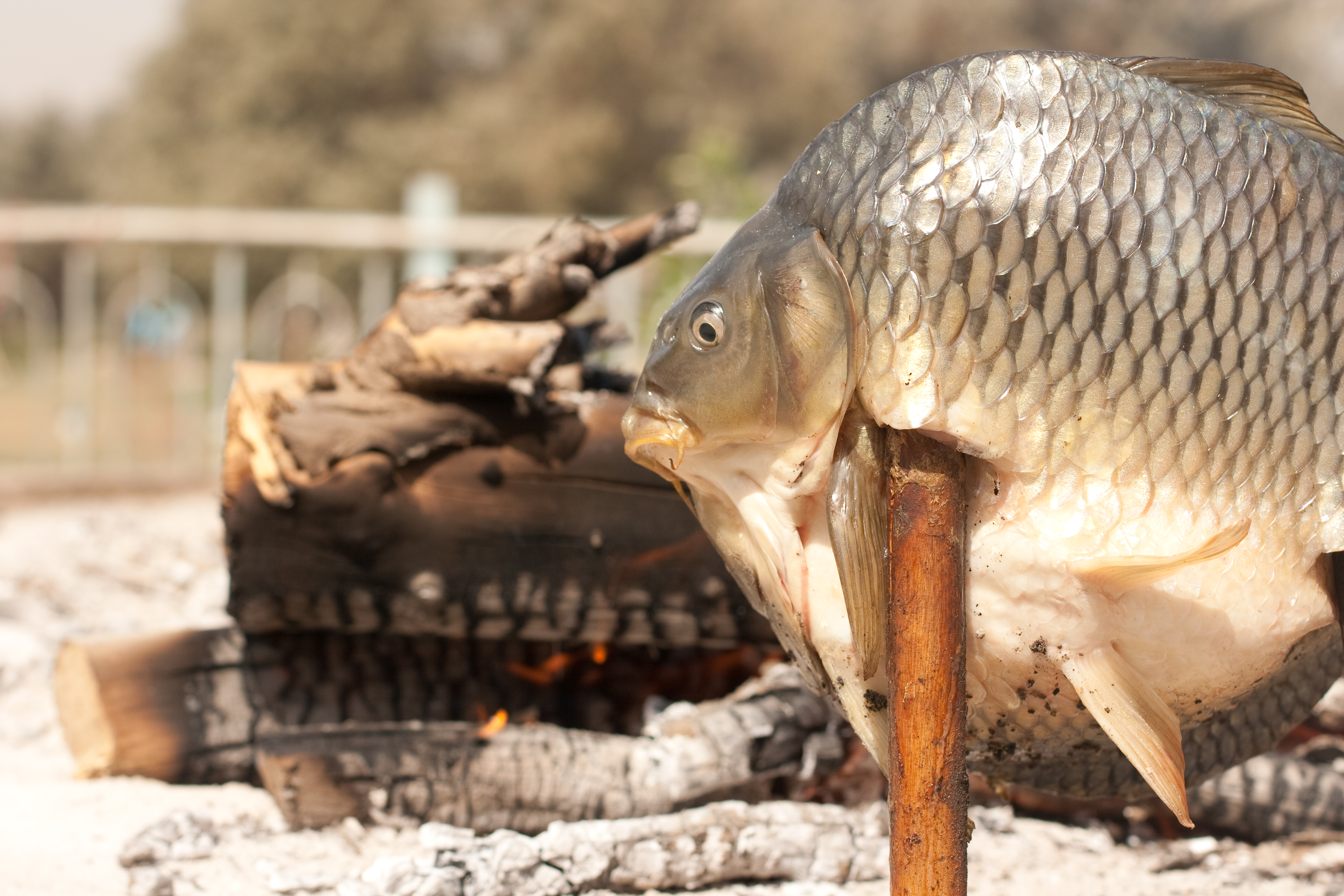 Masgouf: an Iraqi tradition